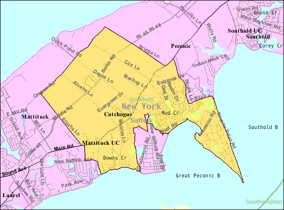 U.S. Census 2000 reference map for Cutchogue